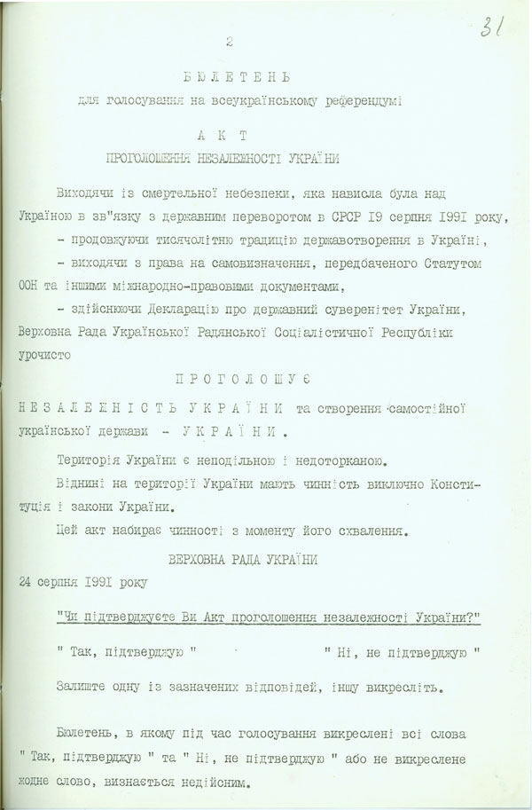 The Declaration of Independence of Ukraine, as printed on the ballot for the national referendum on December 1, 1991.